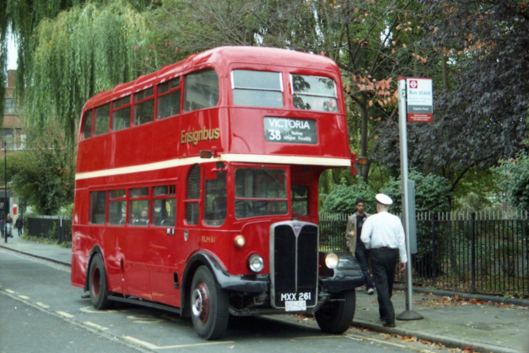 Scanned prints ... Ensignbus RLH guest bus , Last day of the 38 Routemaster, October 2005